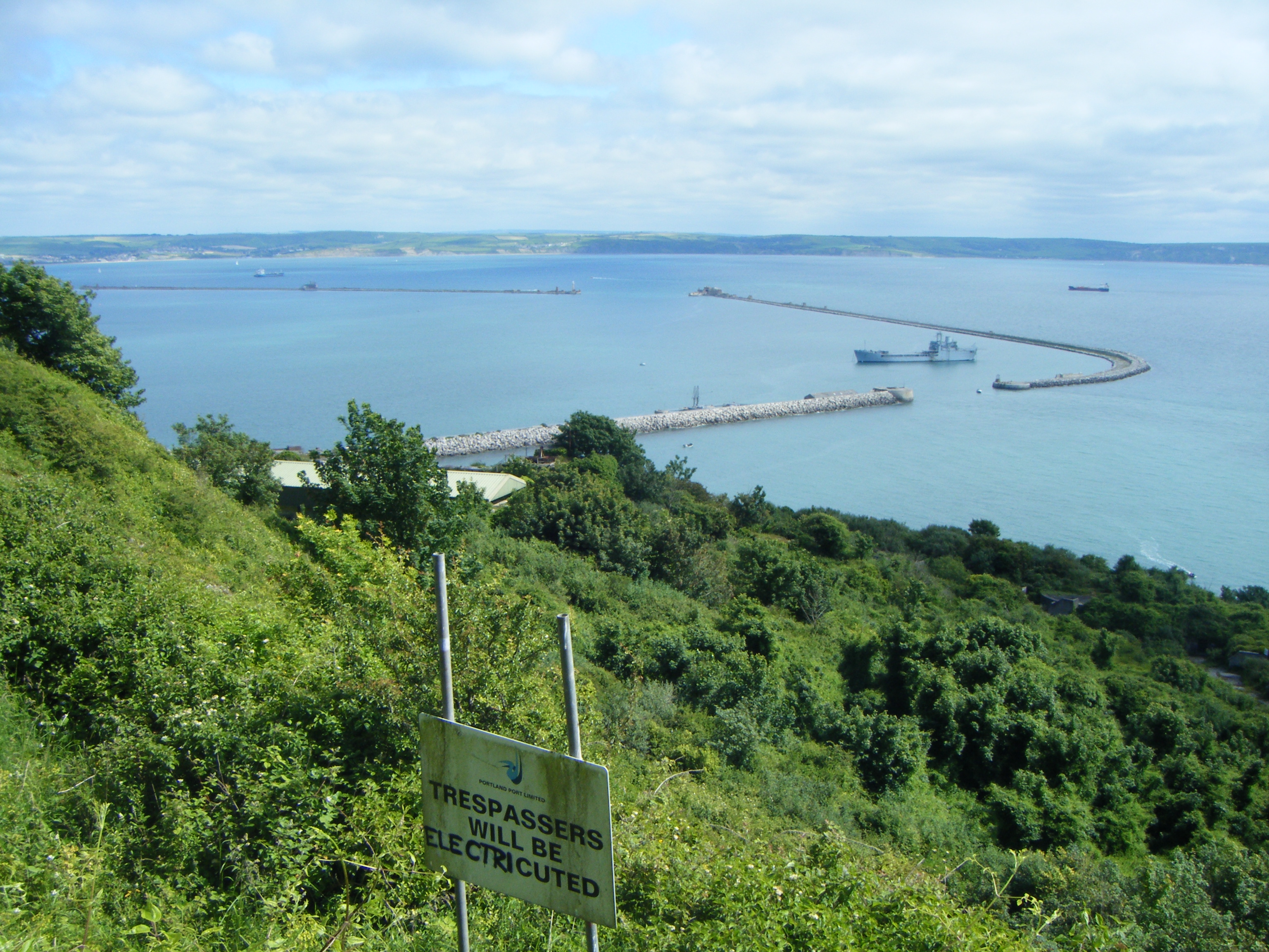 Part of the camp seen from a WW2 Pillbox.